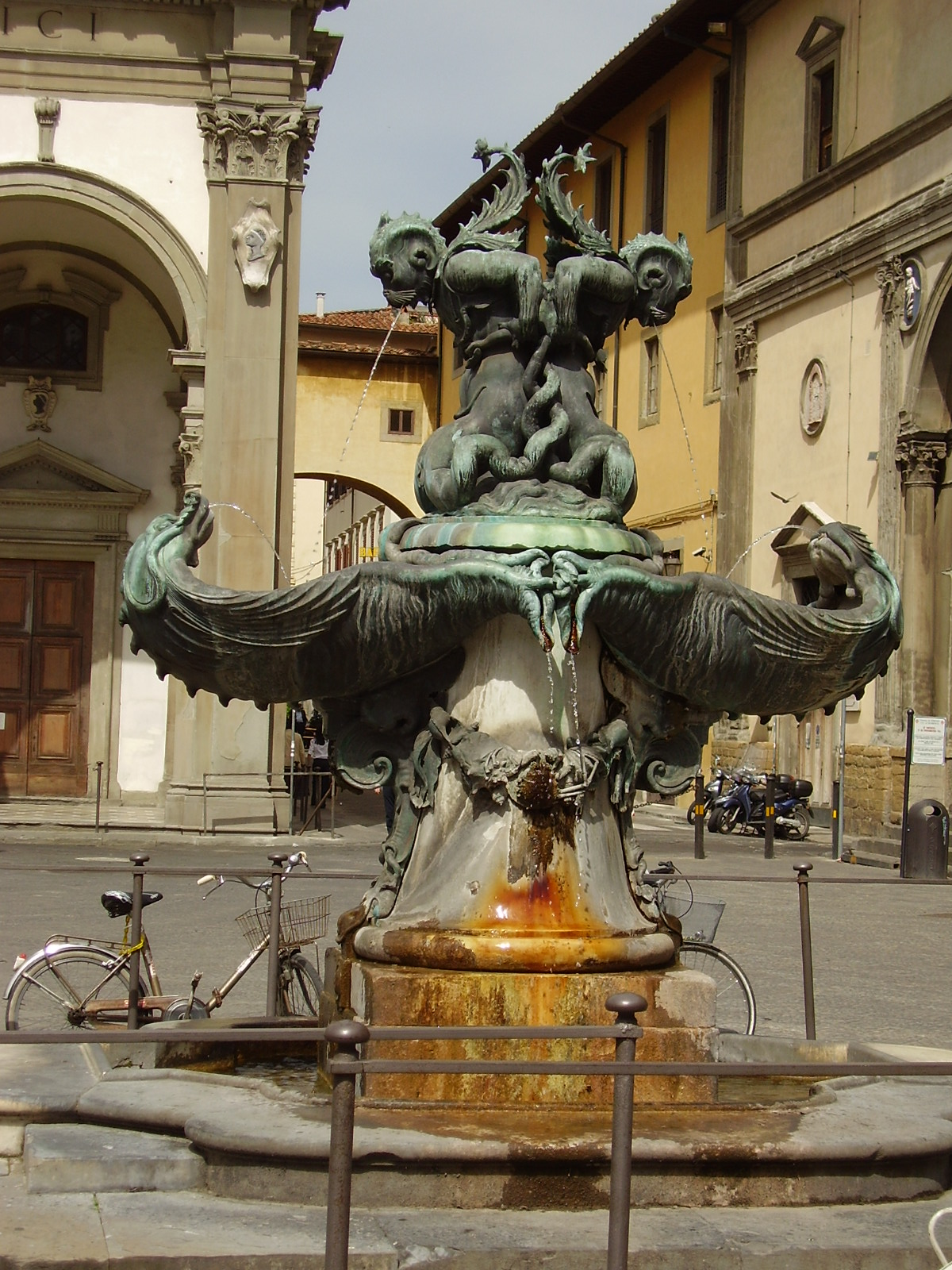 Fountain from Santissima Annunziata Square, outside view in Florence, Italy